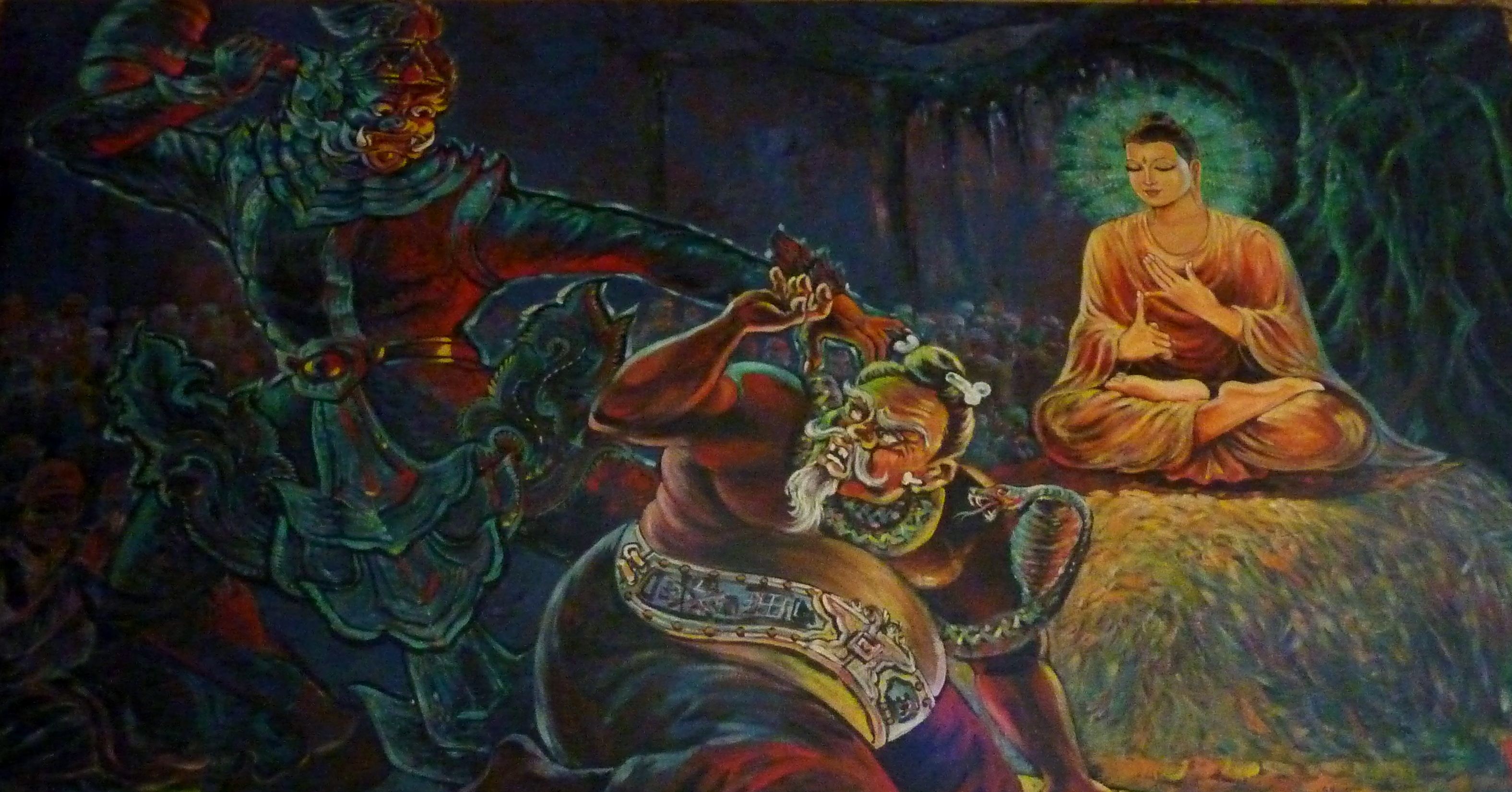 075 The Defeat of Saccaka, at Wat Olak Madu, Kedah